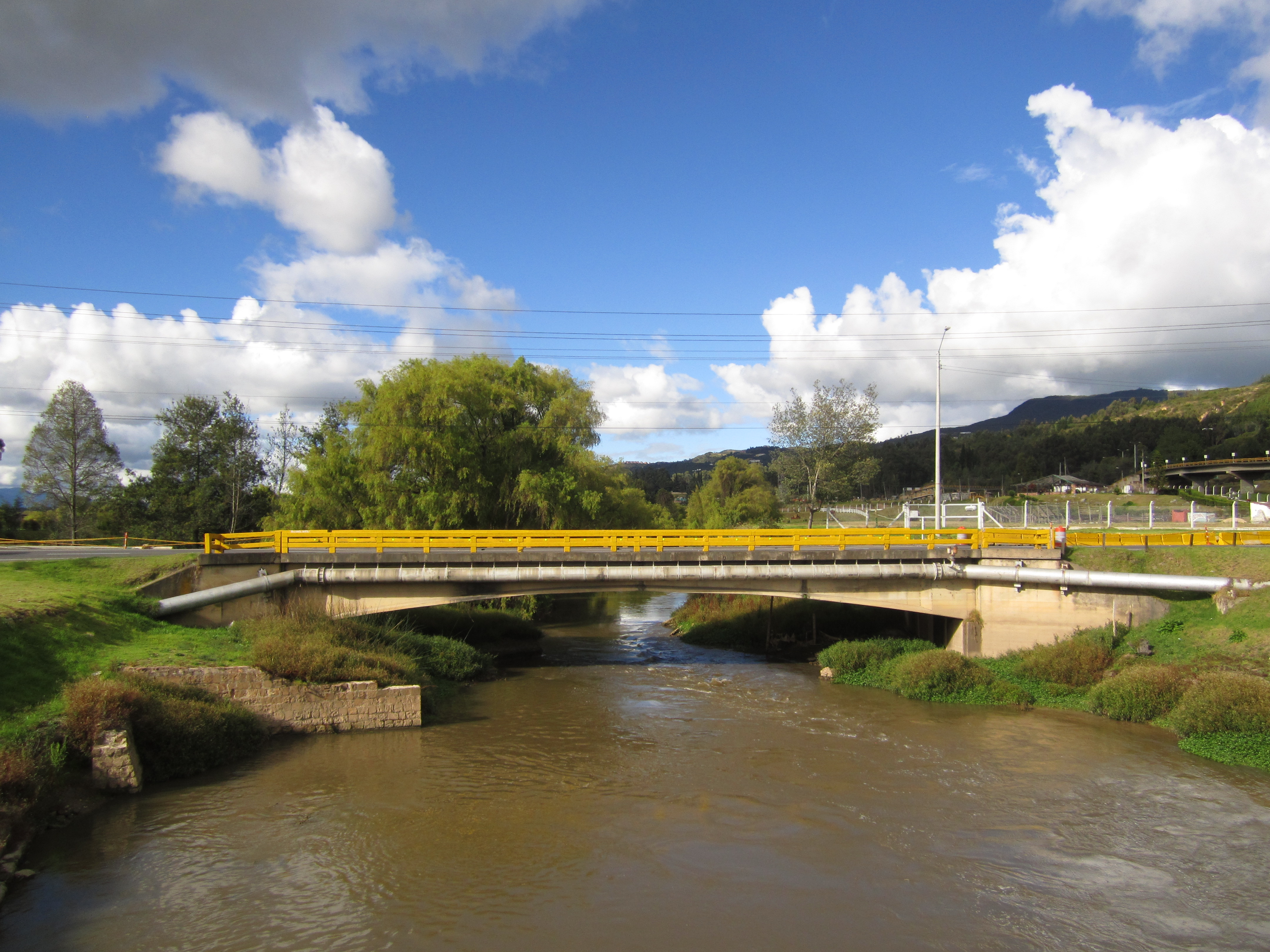 Bogotá